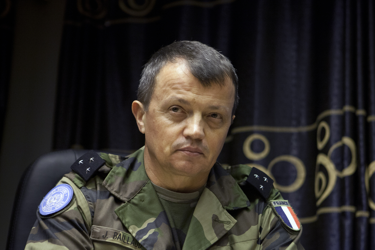 MONUSCO Deputy Force Commander, J Baillaud, during SMT meeting in Goma, the 17th of August 2013. © MONUSCO/Sylvain Liechti